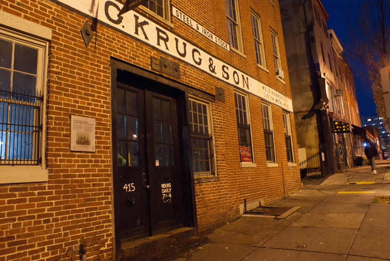 A street view of the first floor building front of G. Krug & Son Ironworks & Museum